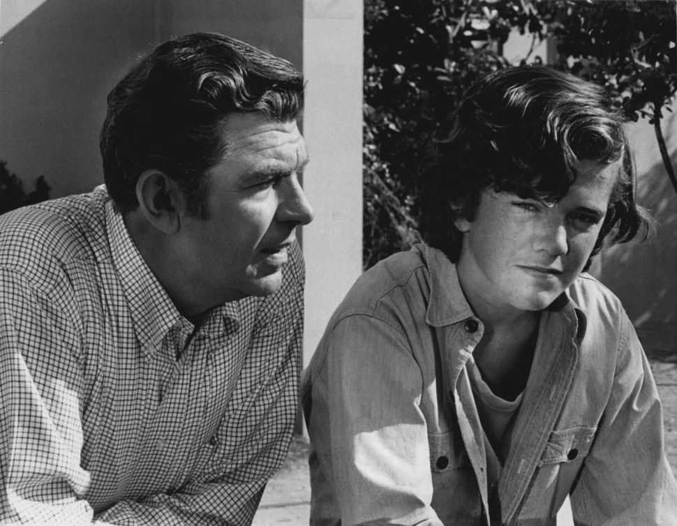 Publicity photo of American actors Andy Griffith and Butch Patrick promoting the September 18, 1970 premiere of the CBS television series The Headmaster.